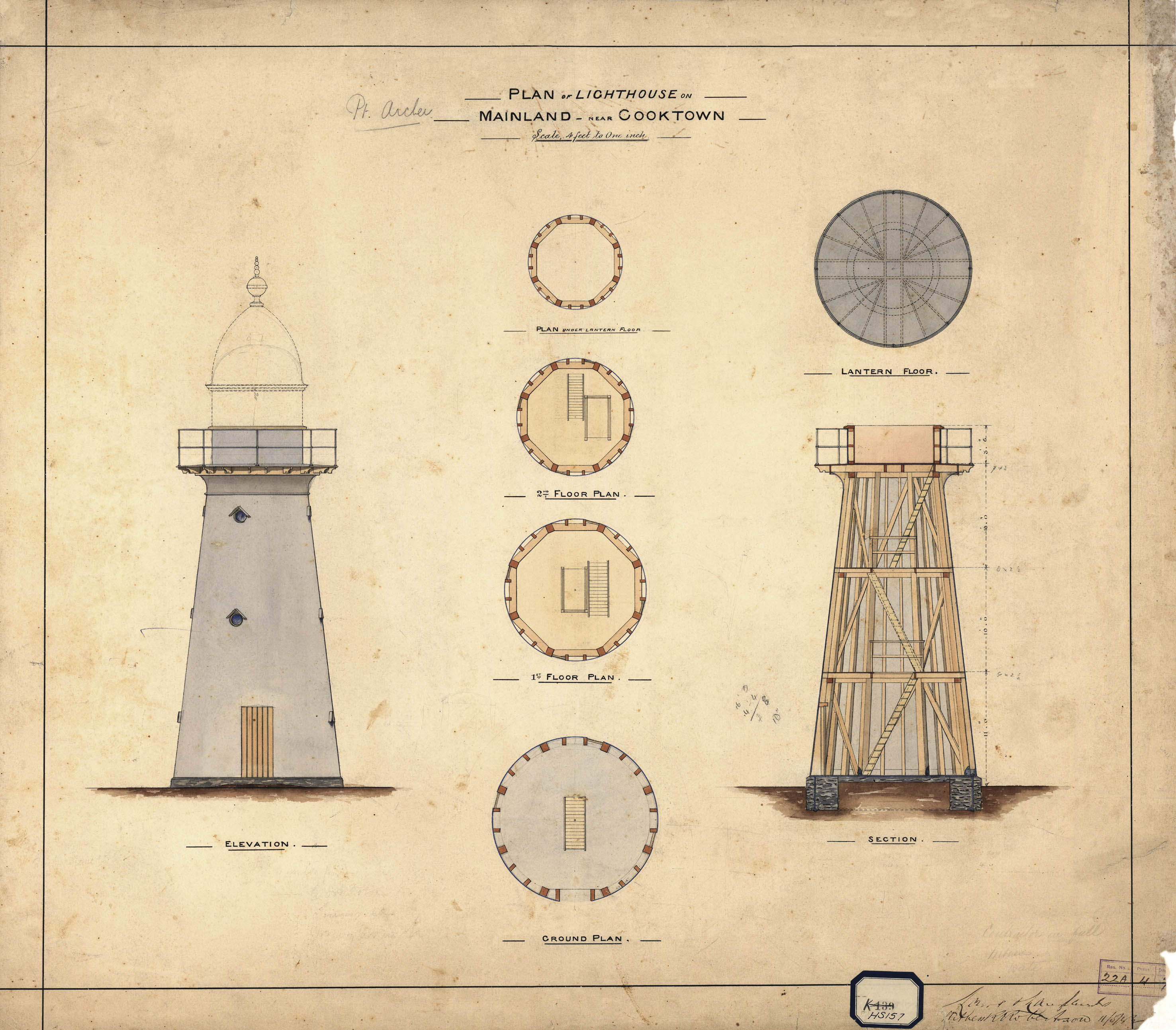 Plans for Archer Point Light - section and elevation. 1882.